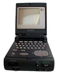 DD-10EX, ca. 1992, included in an exhibition entitled The book and beyond, Victoria and Albert Museum, London, 1995.